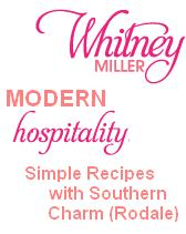 logo book